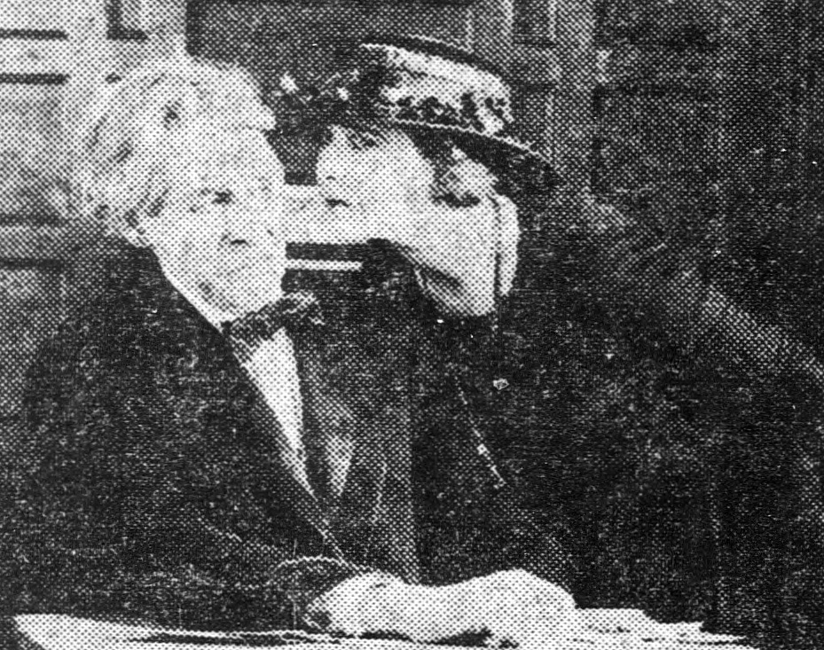 Bonnie Bonnie Lassie is a 1919 American comedy film directed by Tod Browning. This is a scene from the film as printed in a newspaper.